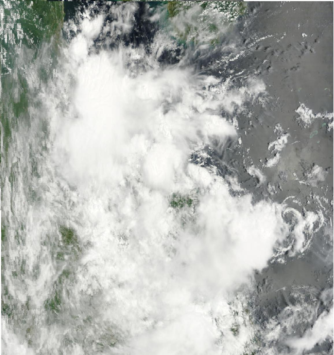 JMA Tropical Depression 20 on 05-09-09 as it was making a direct hit on parts of Vietnam.